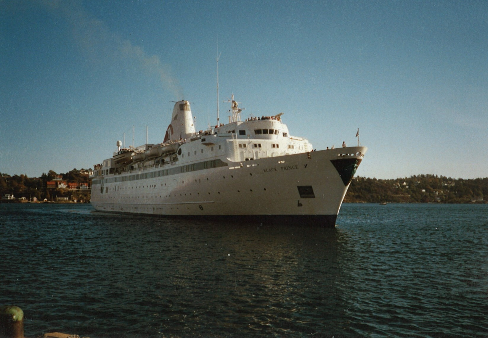 MS Black Prince in Galtesund in Arendal